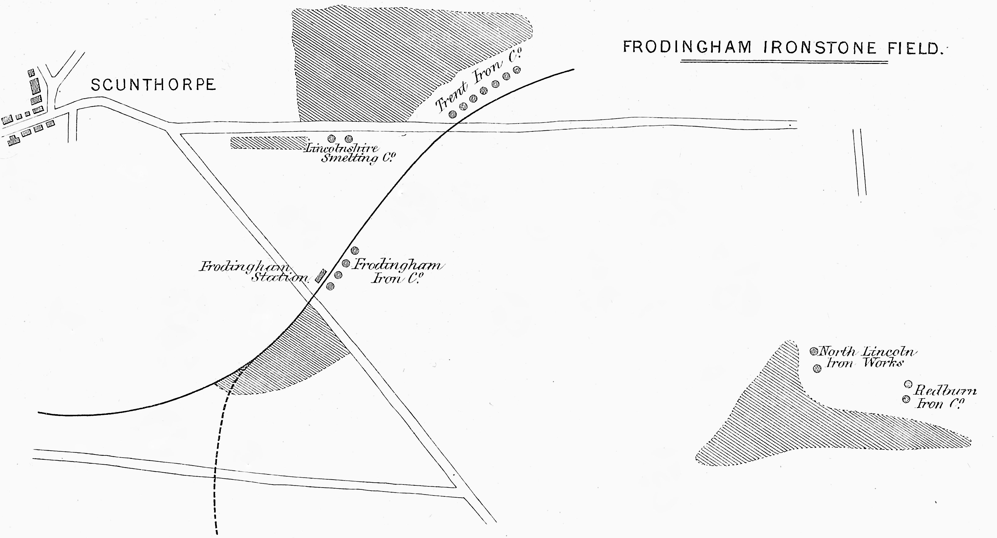 Drawn map of ironworks/ iron ore extraction in the Scunthorpe area c.1875 from Daglish, J.; Howse, R. (1875), “Some Remarks on the Beds of Ironstone Occurring in Lincolnshire”, in Transactions of the North of England Institute of Mining Engineers[1], volume 24 (1874-75), pages 23